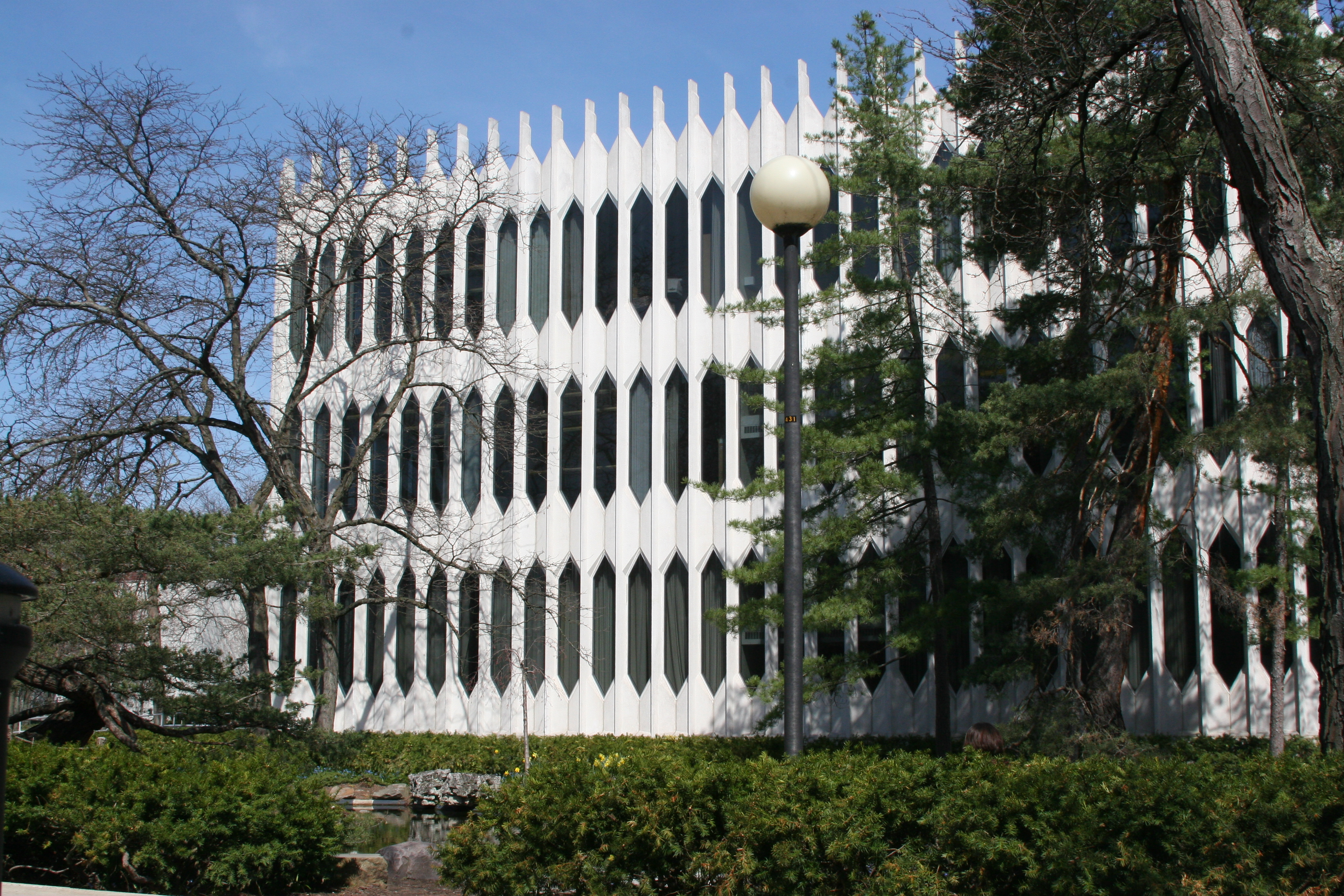 Music Conservatory at Oberlin College, designed by Minoru Yamasaki